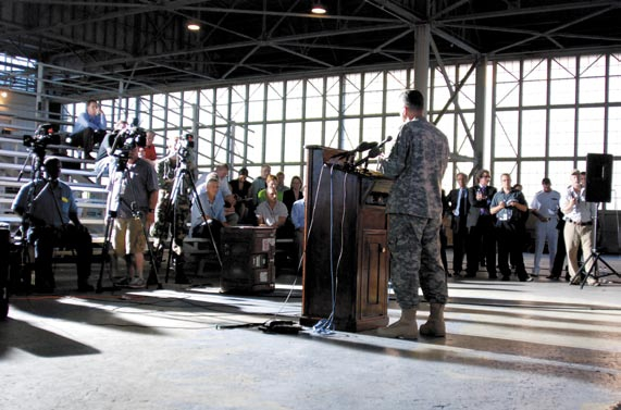 History unfolds Army Col. Steven David, chief defense counsel for the Office of Military Commissions , addresses civilian media during a press conference following the arraignment of Khalid Sheikh Mohammed and four other alleged 9/11 co-conspirators in McCalla Hangar here June 5. If found guilty, the accused may face capital punishment. – JTF Guantanamo photo by Navy Petty Officer 2nd Class Nat Moger